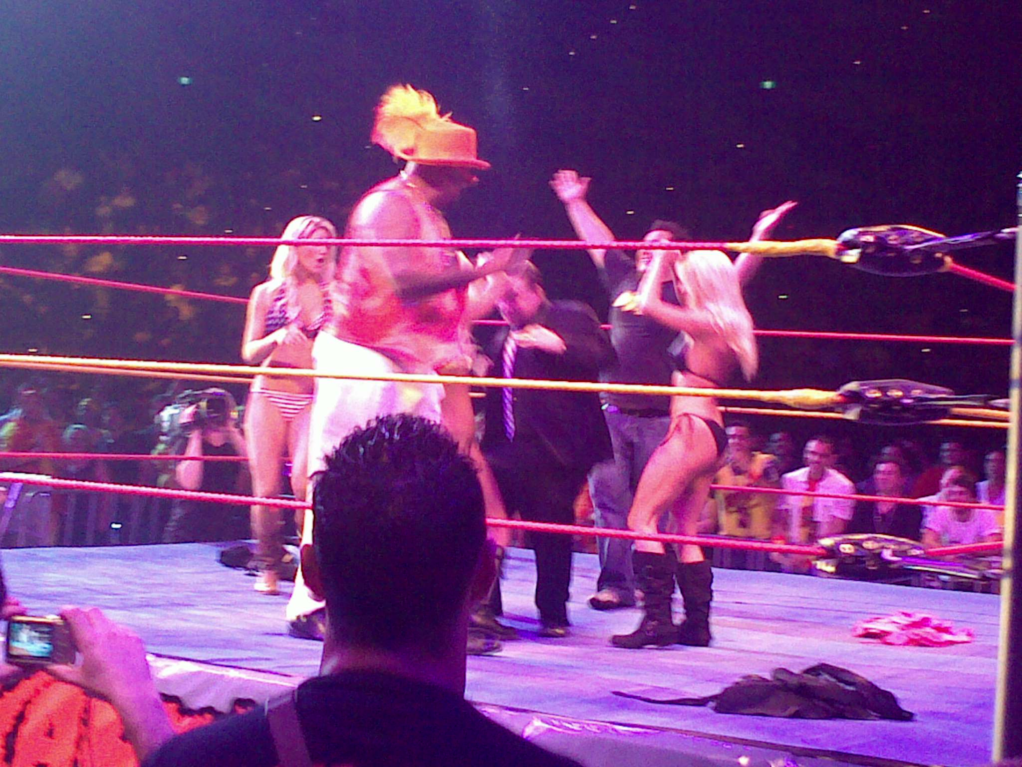 the goodfather